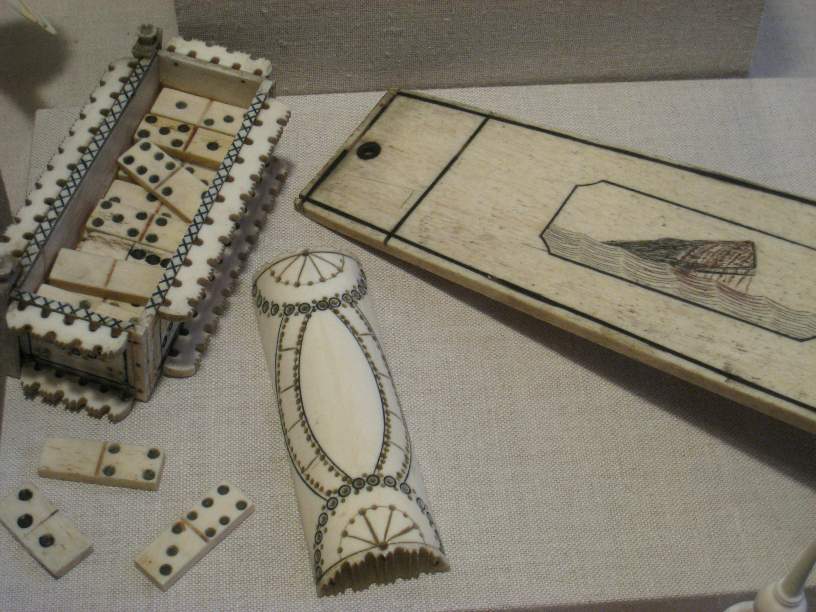 Scrimshaw - Old State House Museum, Boston, Massachusetts, USA.